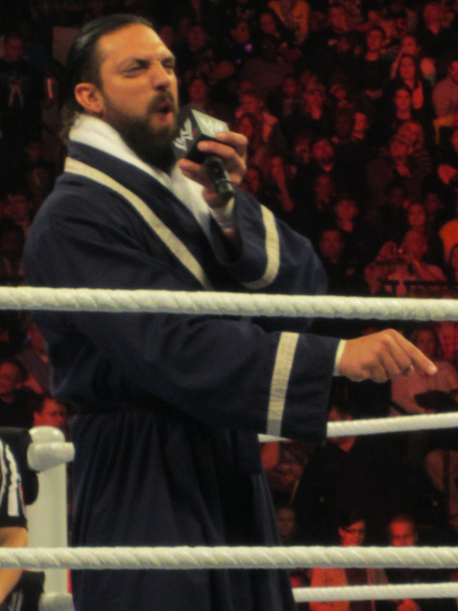 Damien Sandow in a WWE Raw show in February 2013.